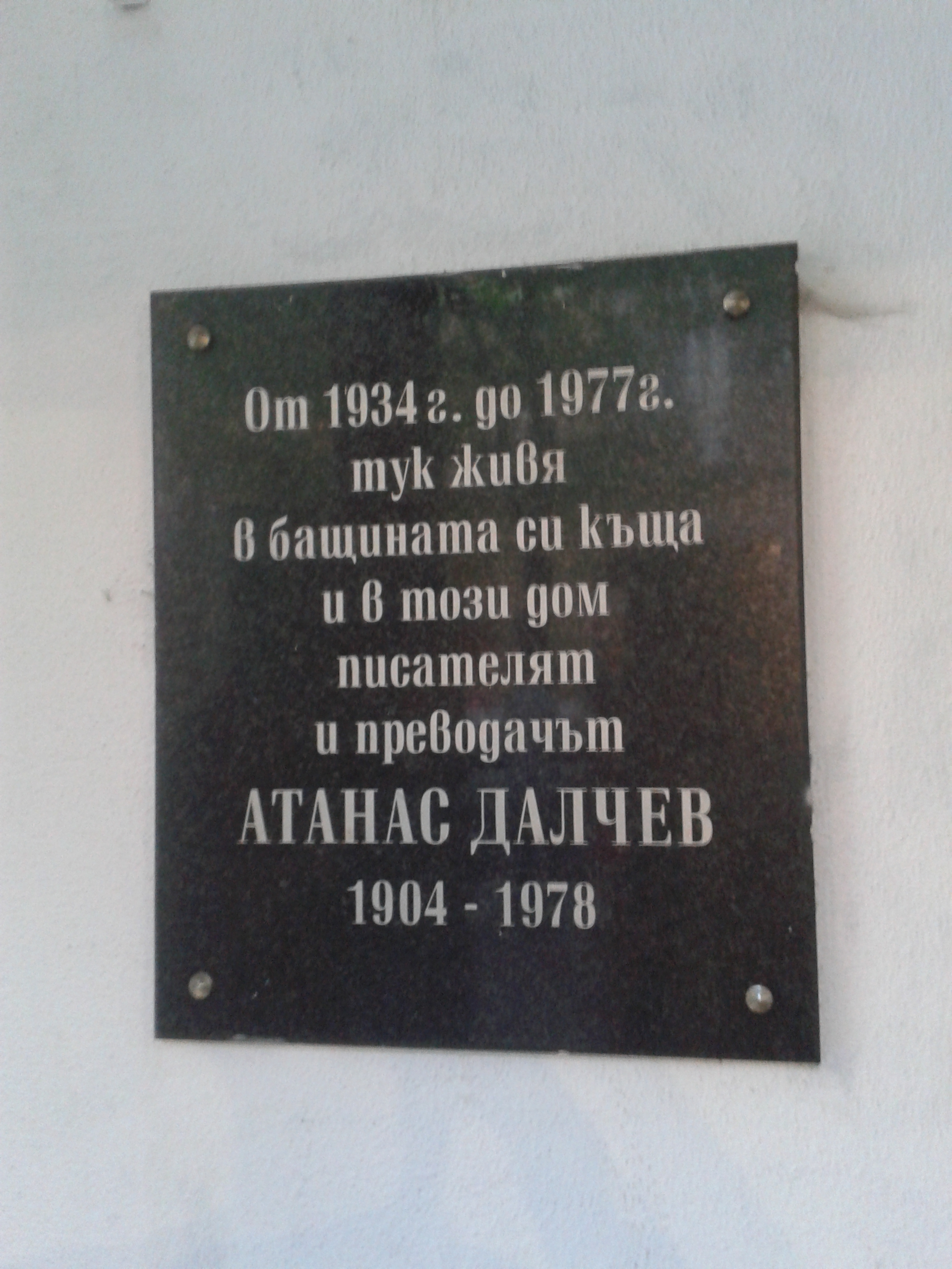 Atanas Dalchev Memorial Plaque, 5 Solunska Str., Sofia